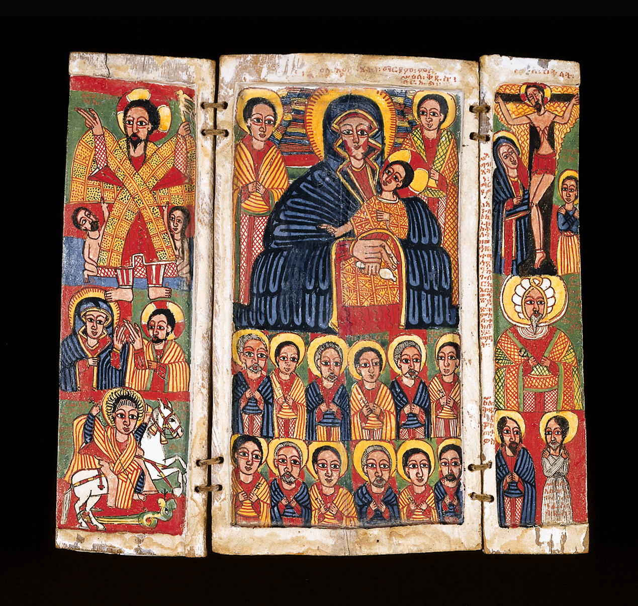 Certain features of this icon are indicative of a mid-late 17th century date. St. George, for example, is slaying a serpent rather than a dragon, and Mary faces the viewer in a plain blue robe, the folds of which are depicted by a heavy linear overlay in a contrasting color. The Ethiopian saints, whose specific identifications vary, are also drawn in the style of 17th-century icons. The emphasis on decorative patterning is also found in later icons. Left panel top: Christ's Descent into Sheol (Underworld), Adam and Eve middle: Covenant of Mercy bottom: St. George and the dragon Center panel top: Mary and the Christ child flanked by the archangels Michael and Gabriel bottom: Apostles with hand crosses Right panel top: Crucifixion with Mary and St. John the Evangelist center: Abba Takla Haymanot bottom: Abba Ewostatewos, Abba Gabra Manfas Queddus